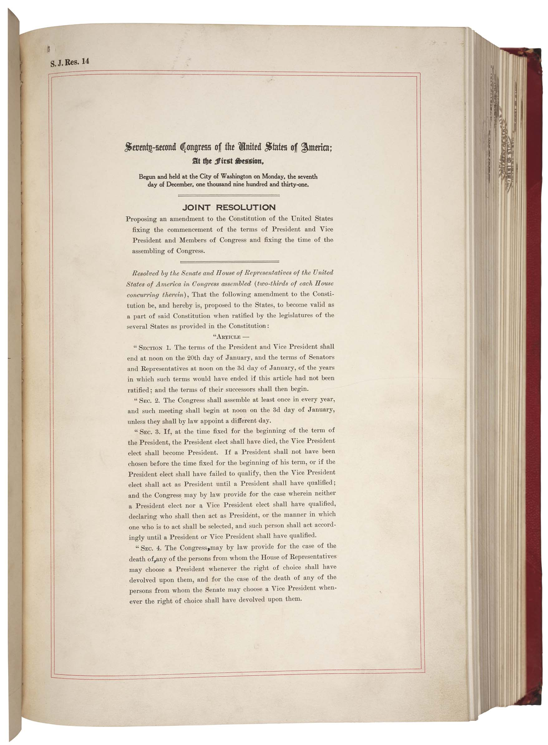 Joint Resolution Proposing the Twentieth Amendment to the United States Constitution